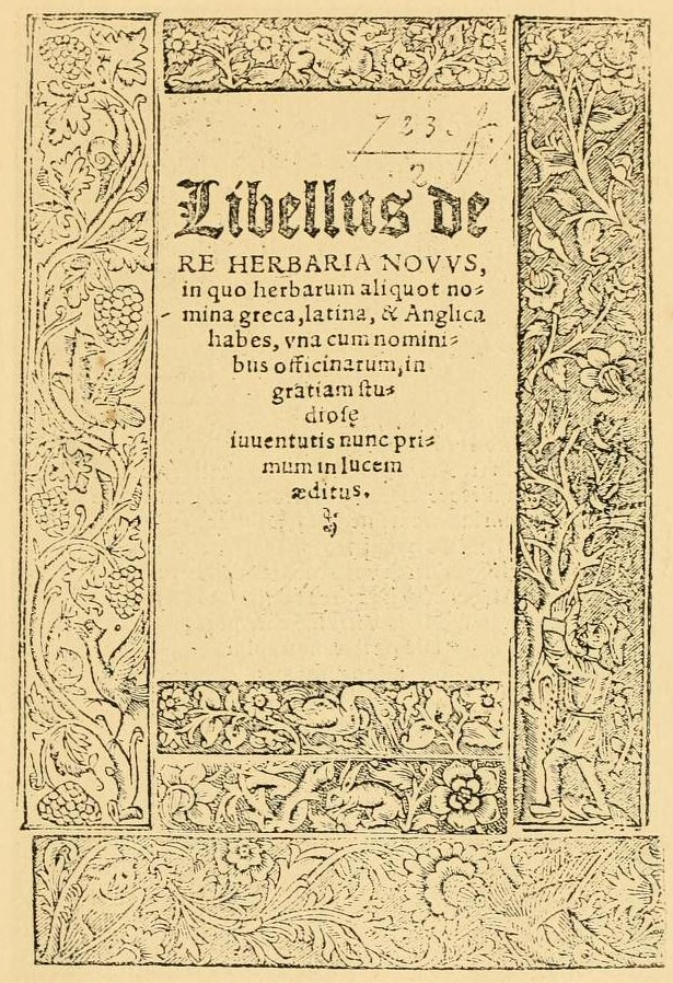 Title page of "Libellus de Re Herbaria Novus" by William Turner, 1538 printed with 5 wood-blocks arranged as a border